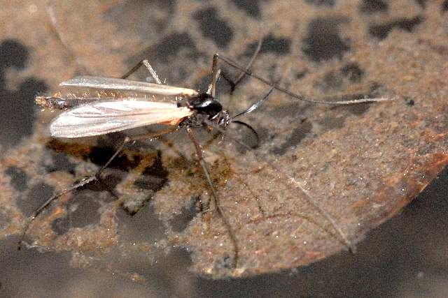 Tribelos intextum from Commanster, Belgian High Ardennes .